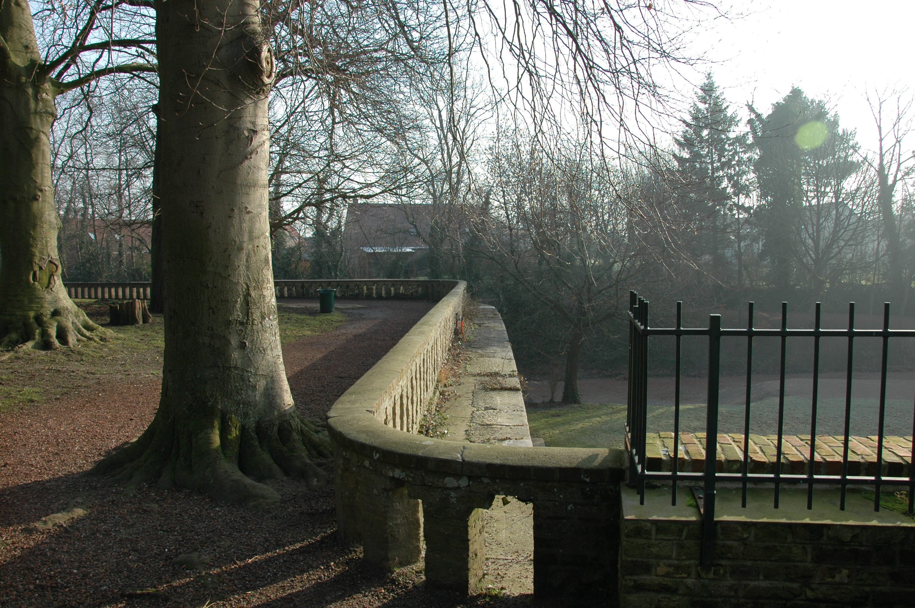 Ardres public garden.